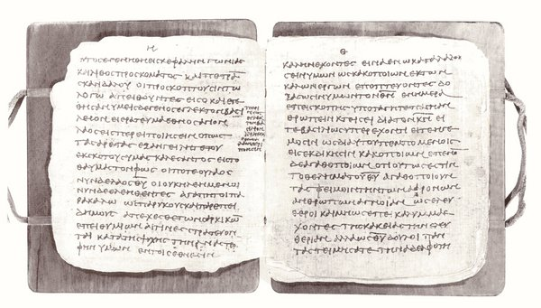 Papyrus 72 or Papyrus Bodmer VII-IX